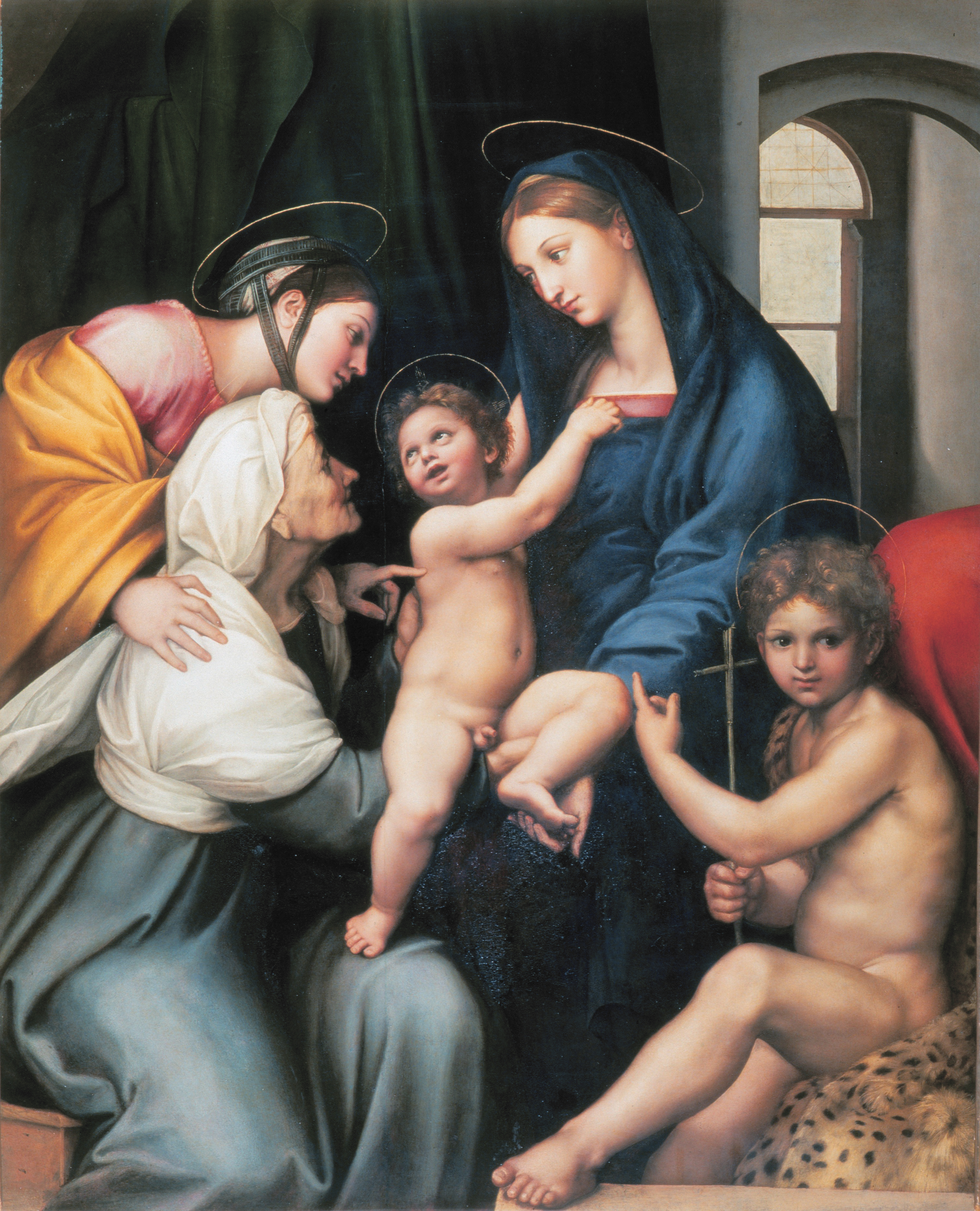 Madonna dell’Impannata oil on wood 158 x 125 cm 1513–1514